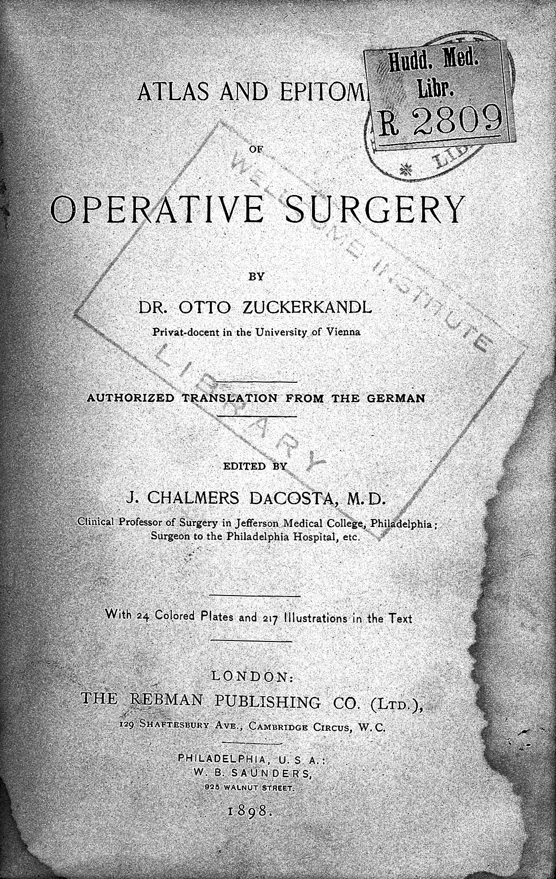 Title page. General Collections Keywords: operative surgery; Anatomy; Otto Zuckerkandl